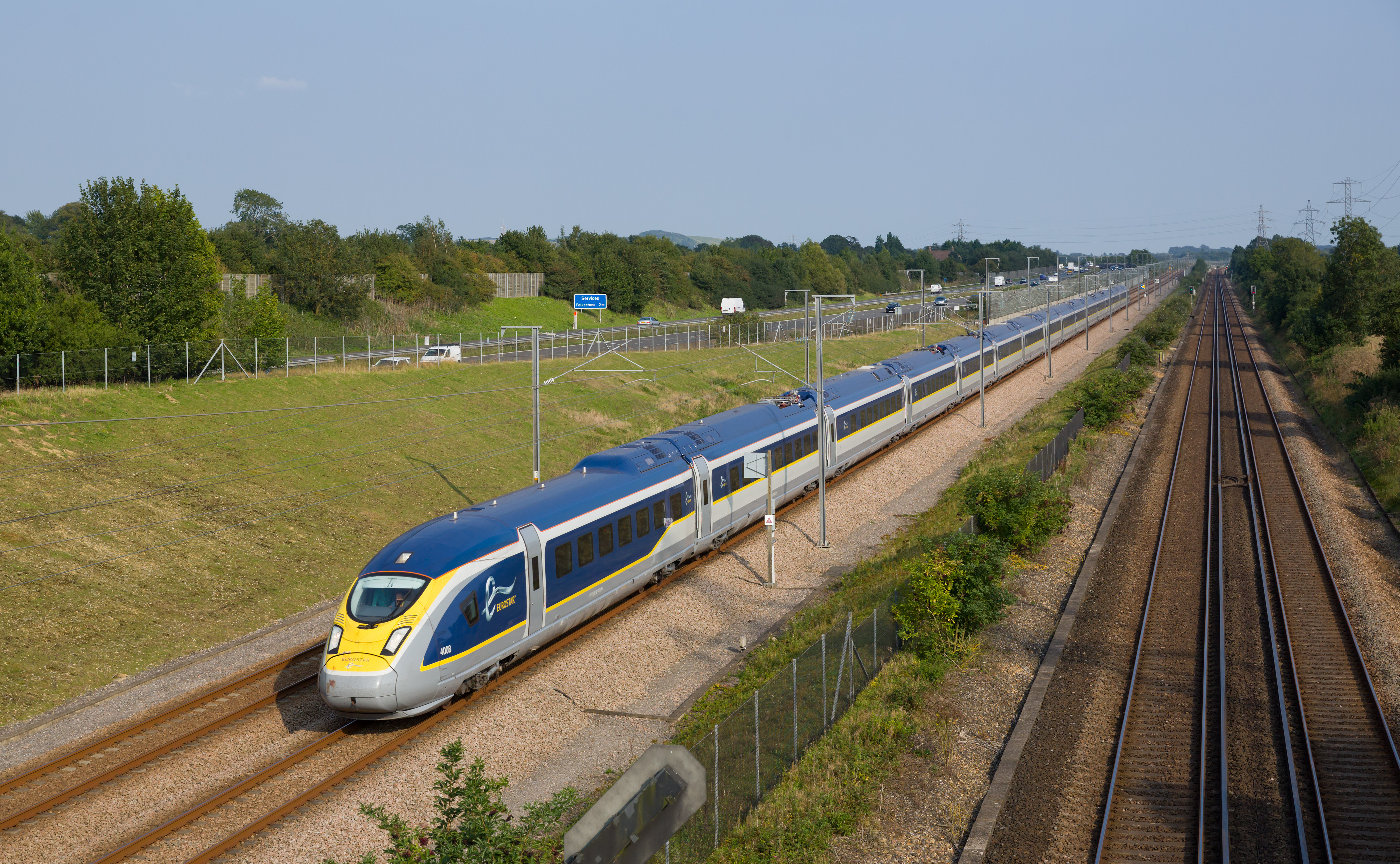 New Eurostar class 374 trainset formed of units 4008/4007, based on the Siemens Velaro series, on HS1, near Sellindge, UK